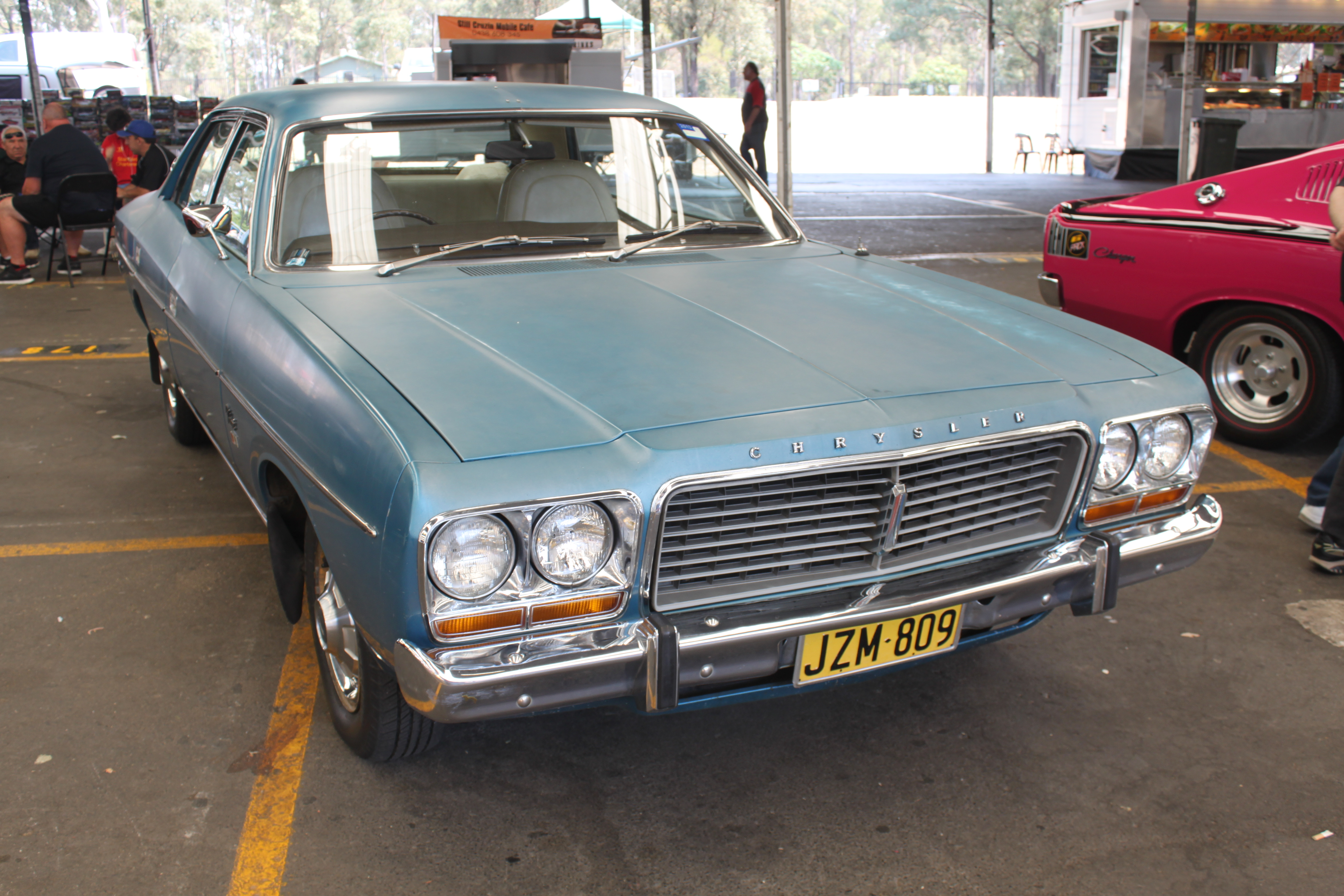 Chrysler Valiant CL